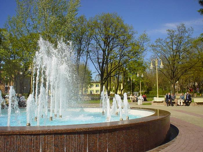 Swidnik, Poland.